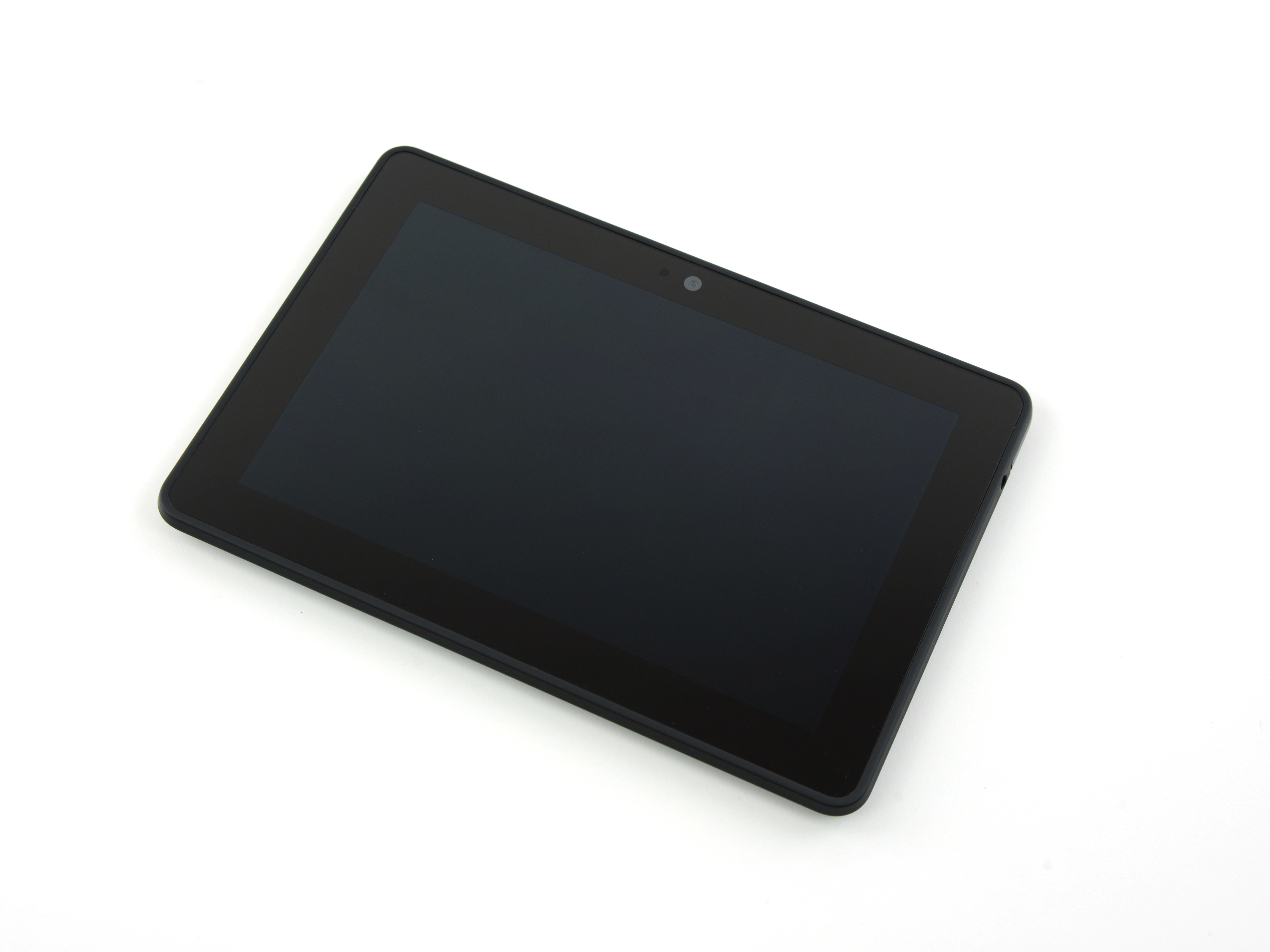 This is the Fire HDX 7" tablet's front.